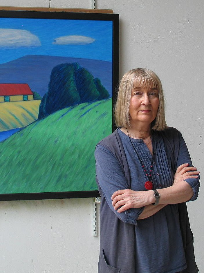 Monika Brachmann in her studio